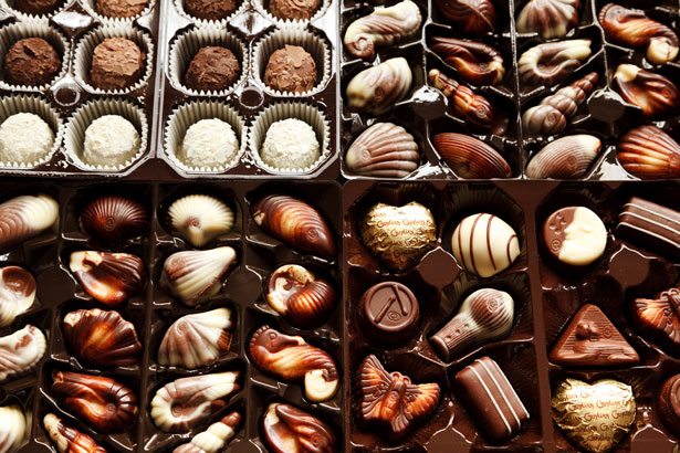 A selection of Guylian Belgian Chocolate